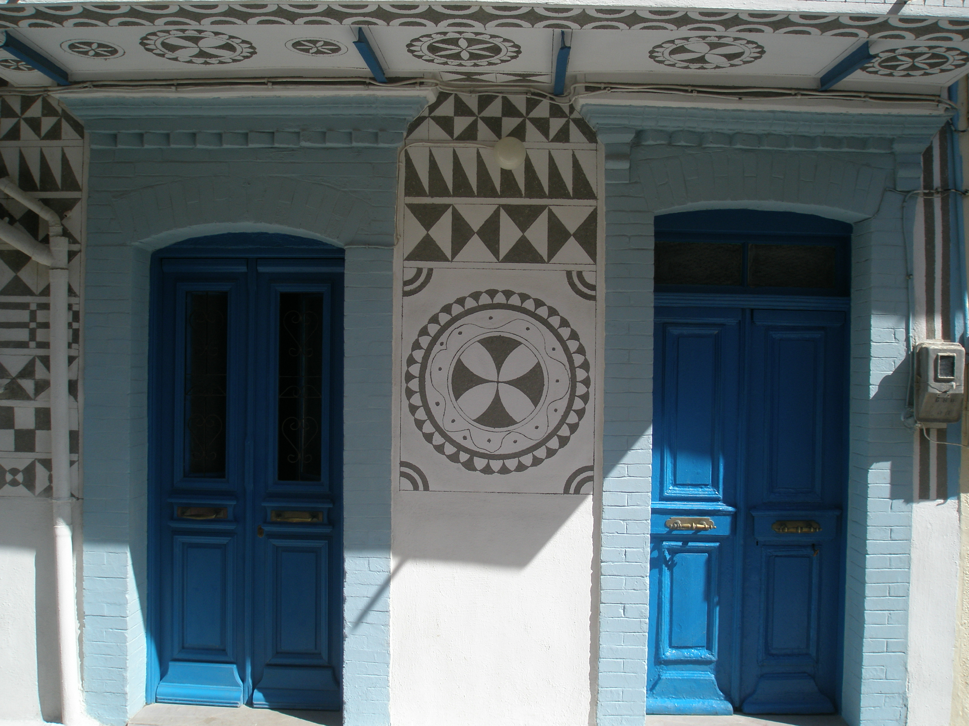 Traditional house at Pyrgi of Chios